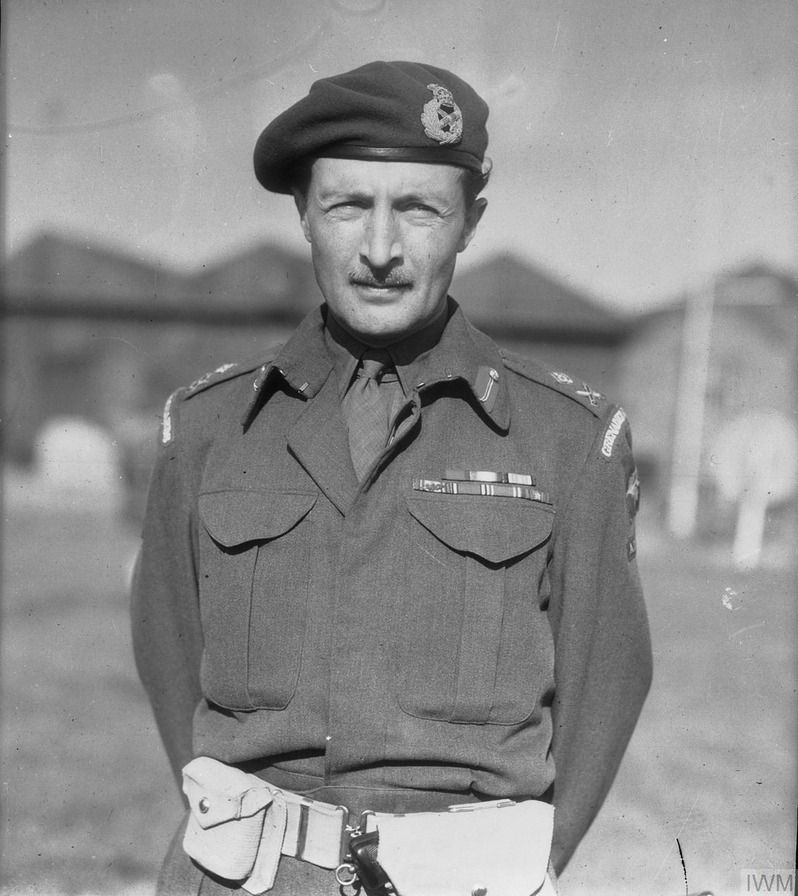 Half length portrait of Major General Sir Frederick Browning (1896 - 1966) taken when he was Commander, 1st Airborne Division. He is wearing a specially tailored Battle Dress blouse with faced lapels.